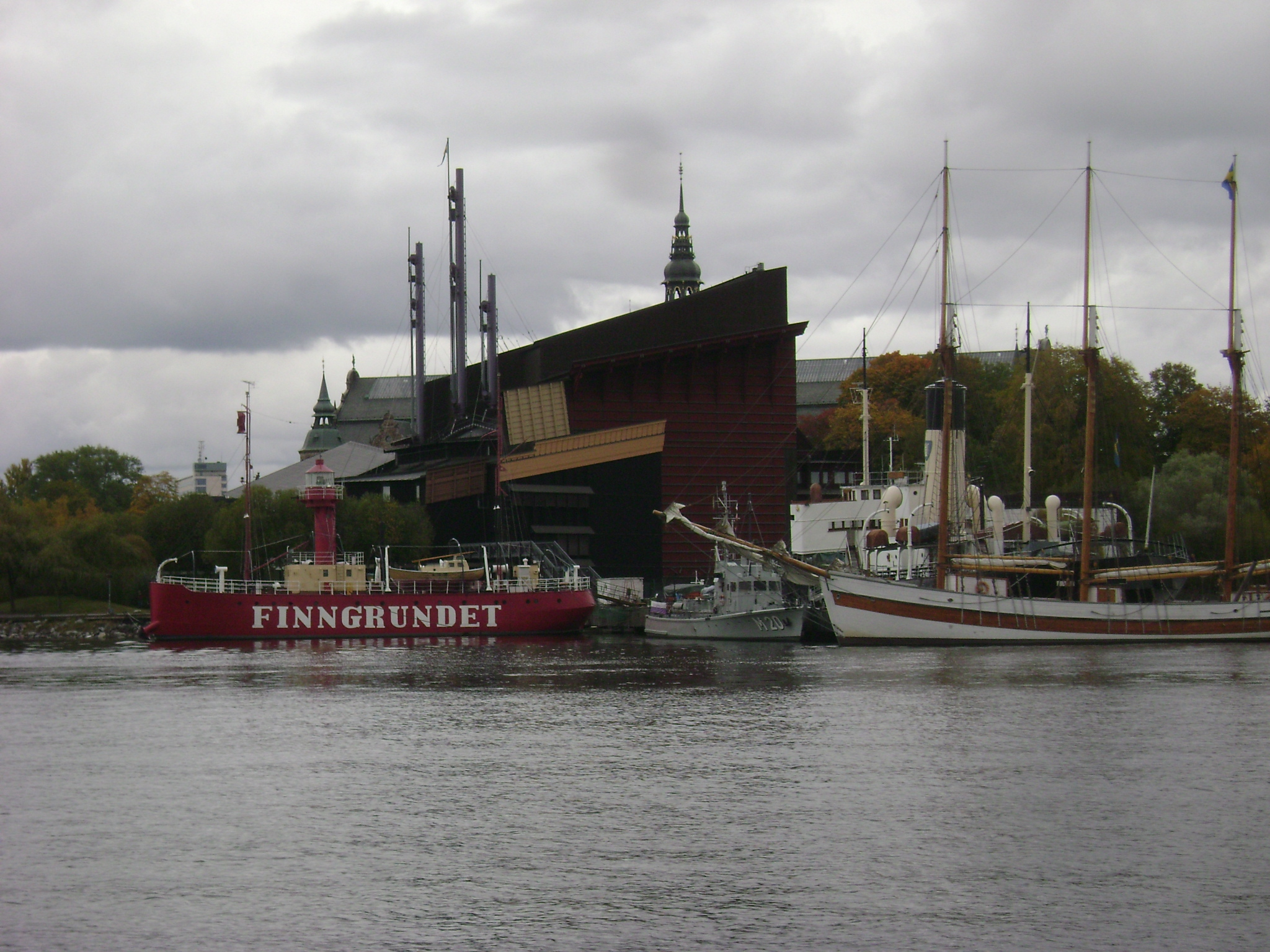 Sweden. Stockholm. Djurgården